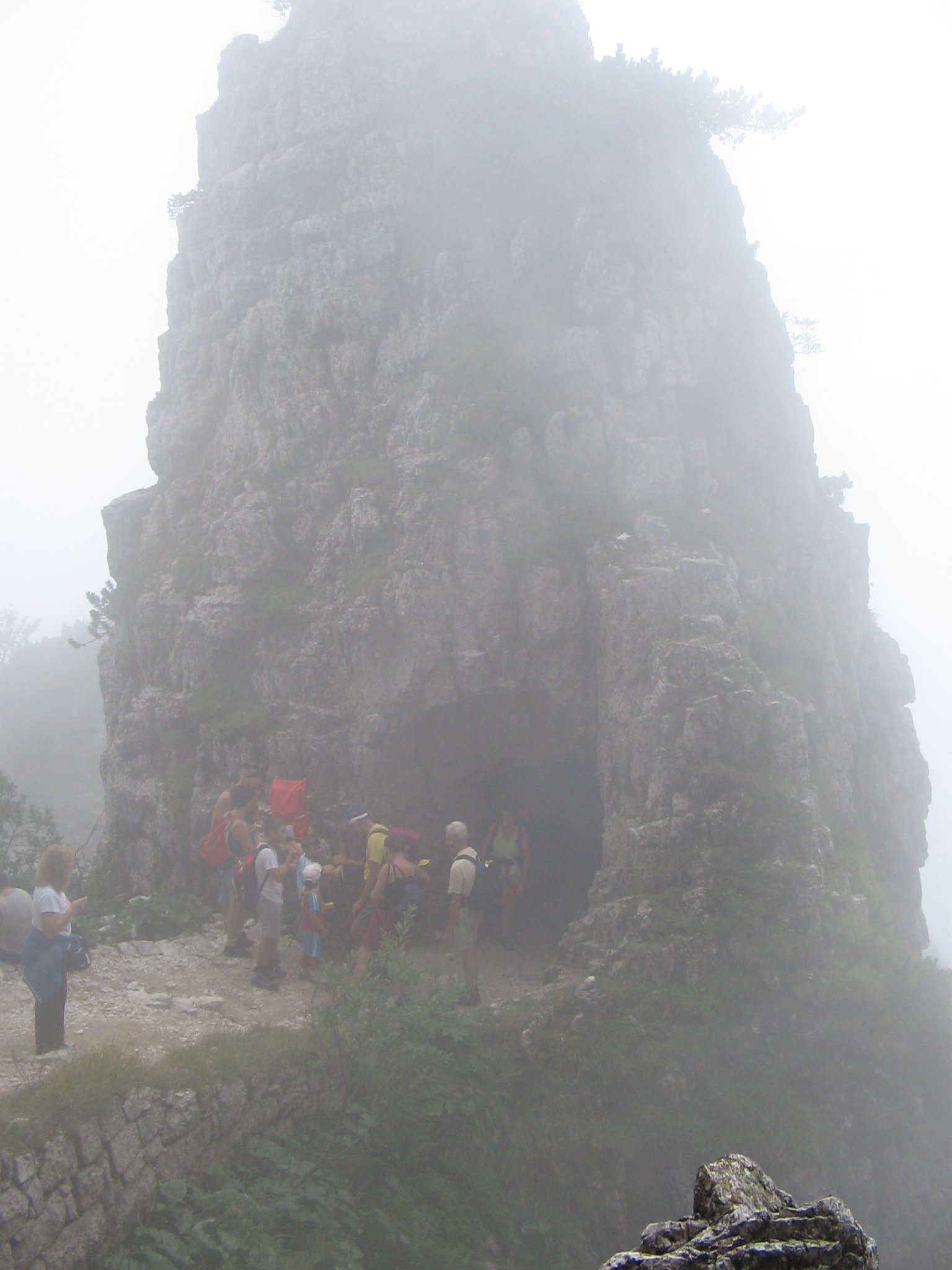 Upper exit of the 20th tunnel (spiral tunnel), Strada delle Gallerie, Pasubio